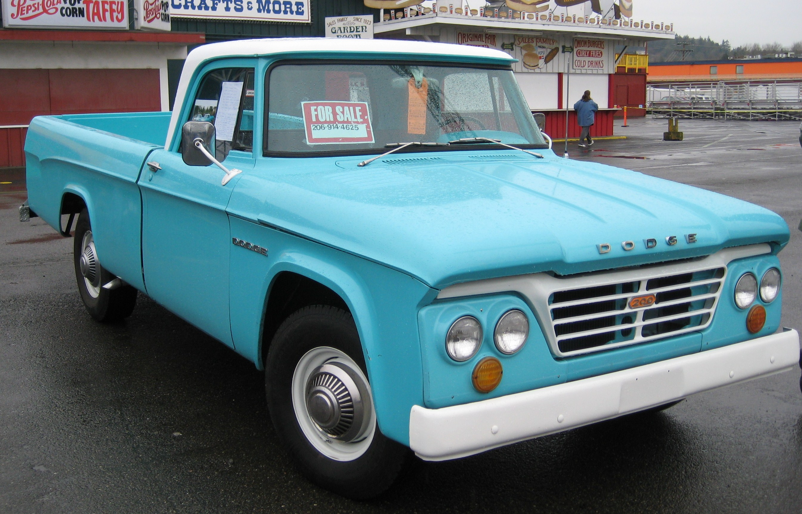 Seen at the Early Bird Swap Meet in February 2010, Puyallup, Washington.